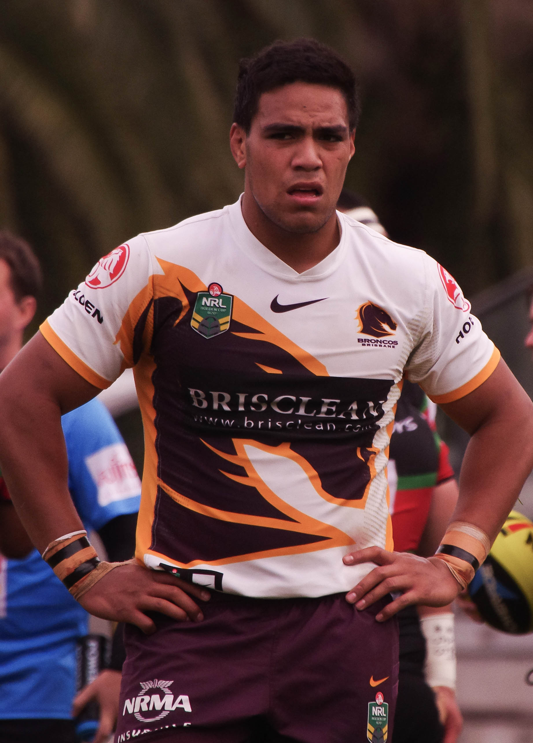 Joe Ofahengaue